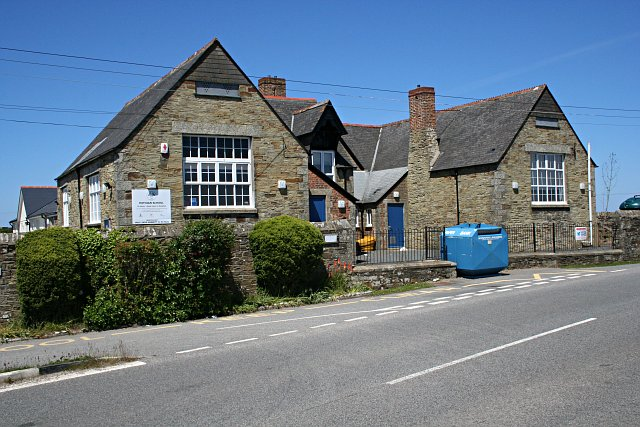 Mithian Primary School. Taken in 2006 this school has changed little since the photograph taken in 1993 46654. One noticeable difference is the presence of a blue recycling skip in front of the school. In 2006 Cornwall is desperately short of places to dump its rubbish and is trying to recycle everything it can.